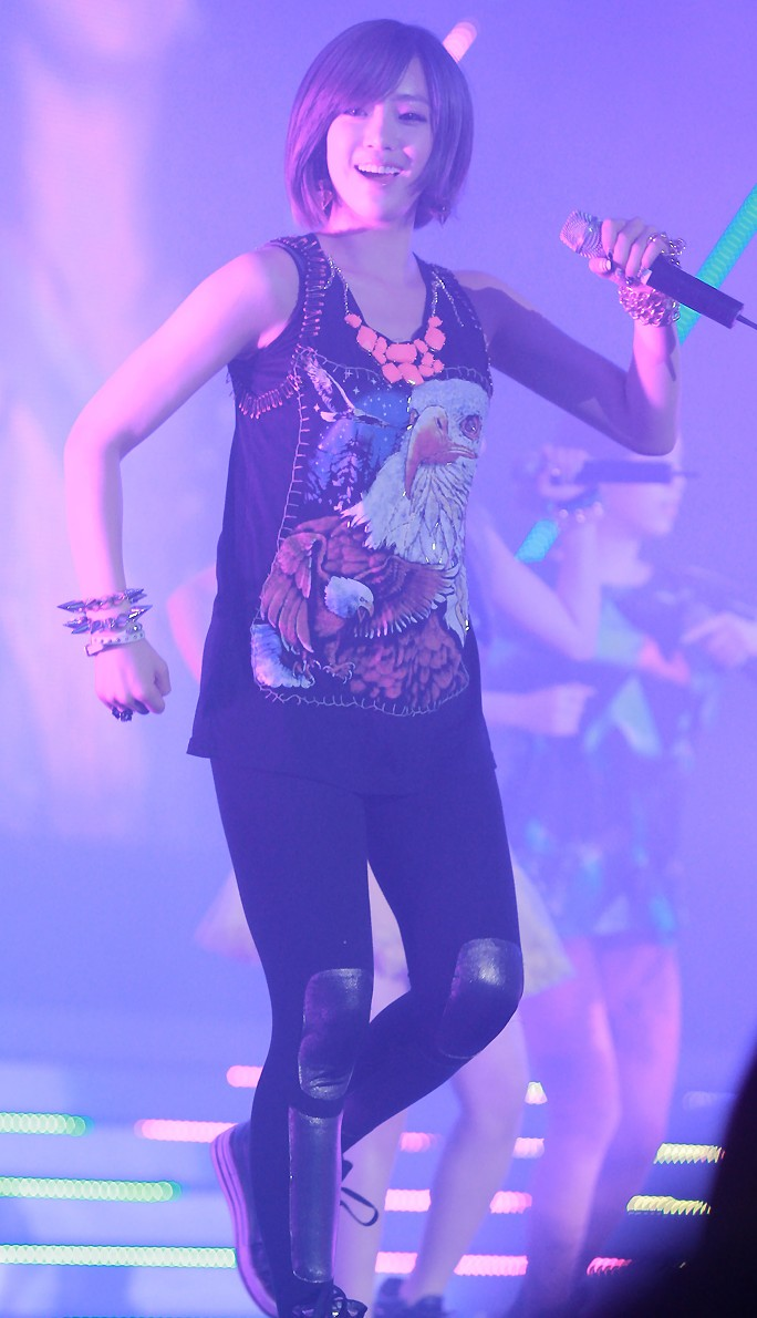 Eunjung at GUESS Party, July 2012